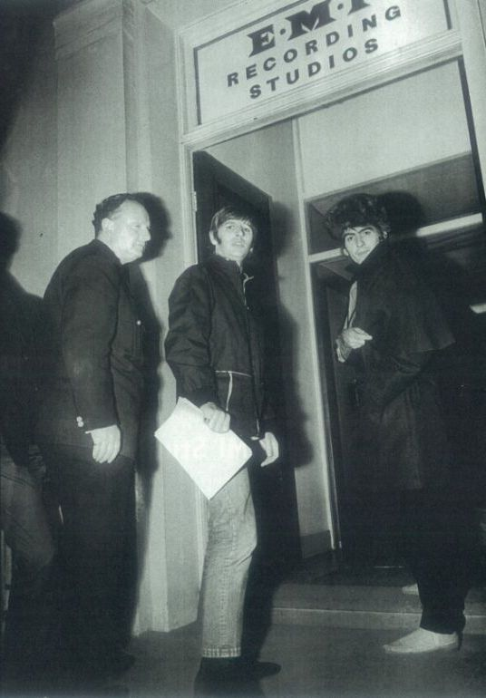 AbbeyRoadStudios (1966/11/24)